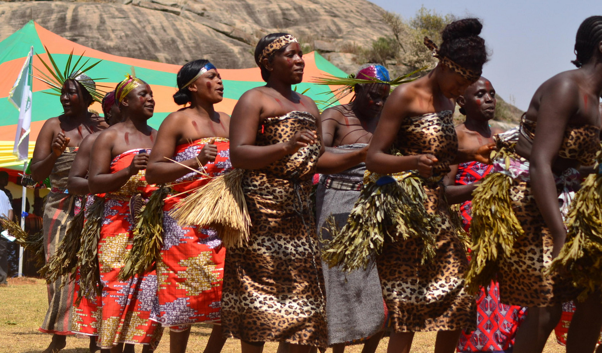 A cultural troupe parades during Nawhai Festival in Bokkos LGA, of Plateau State This is an image with the theme "Play" from: Nigeria